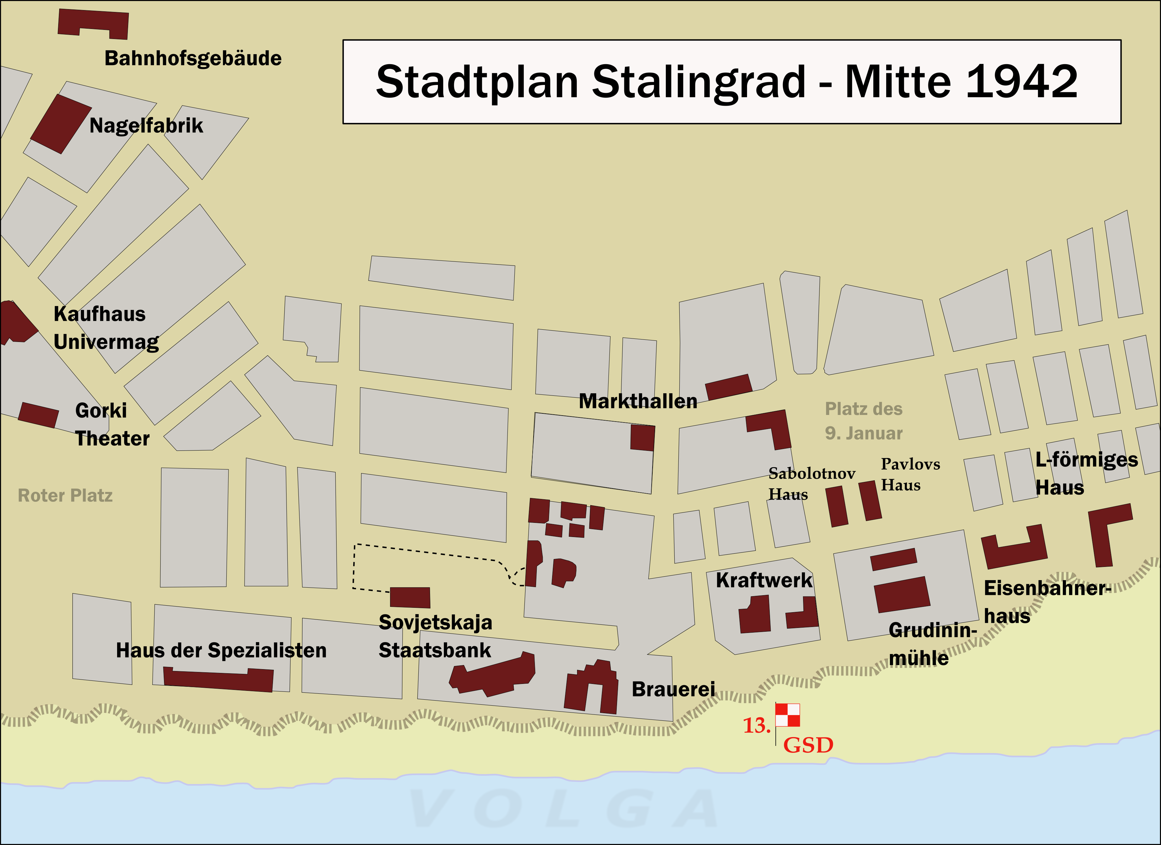 Map (in German language) showing the downtown area of Stalingrad (today Volgograd) in autumn 1942, during the time of the battle for the town. The work is based on a sketch from Wolfgang Kirstein (Hrsg.): „Rekonstruktion eines Tage-Buches“ - Die 295. Infanterie-Division von 1940 bis 1945, Langelsheim 1999. ISBN 3-00-012242-7